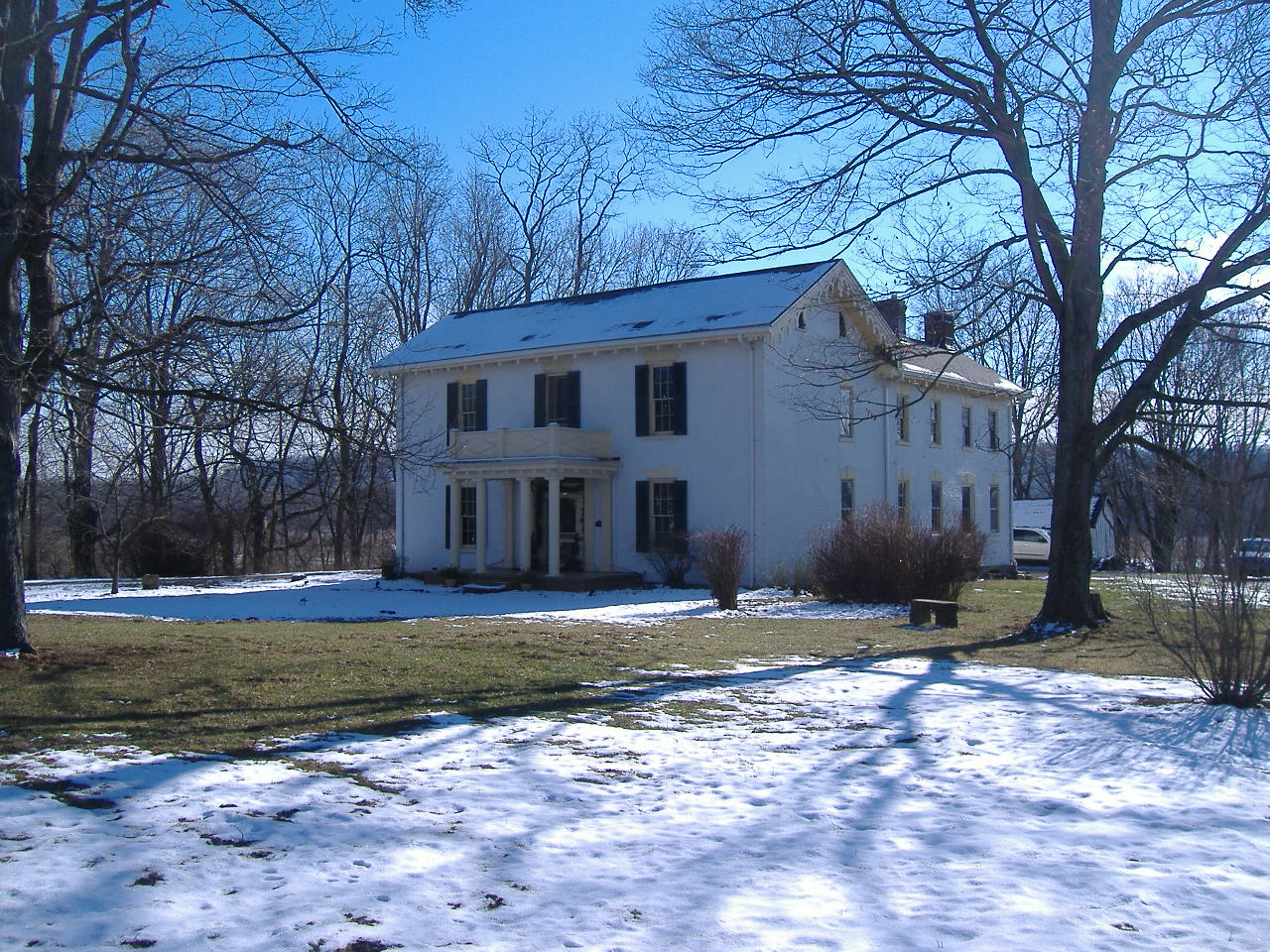 The Levi Anderson House located at 428 Anderson Station Road west of Chillicothe, Ohio.